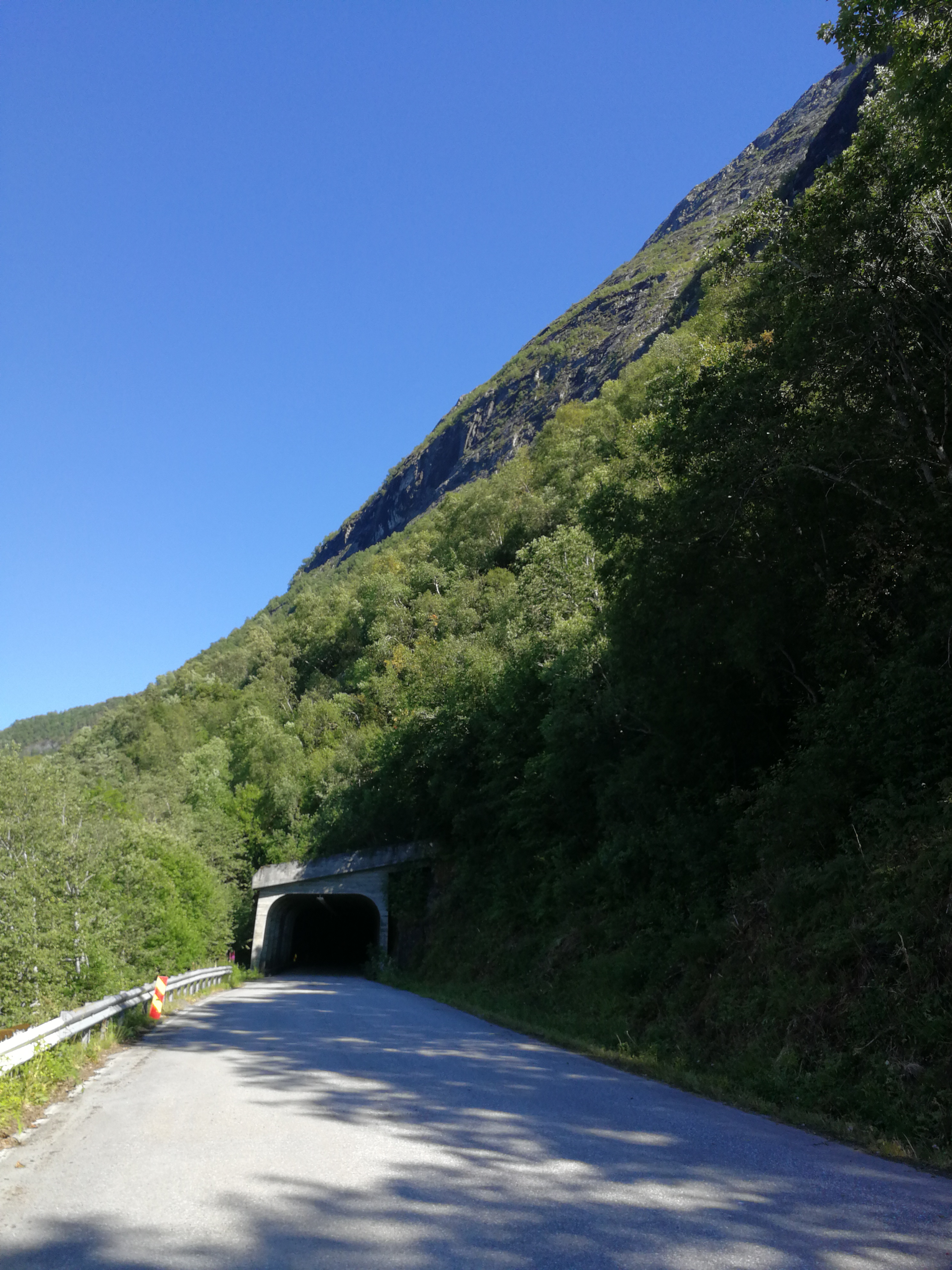 The western portal of the Skafonna tunnel with the Setnesfjellet seen rising in the background.